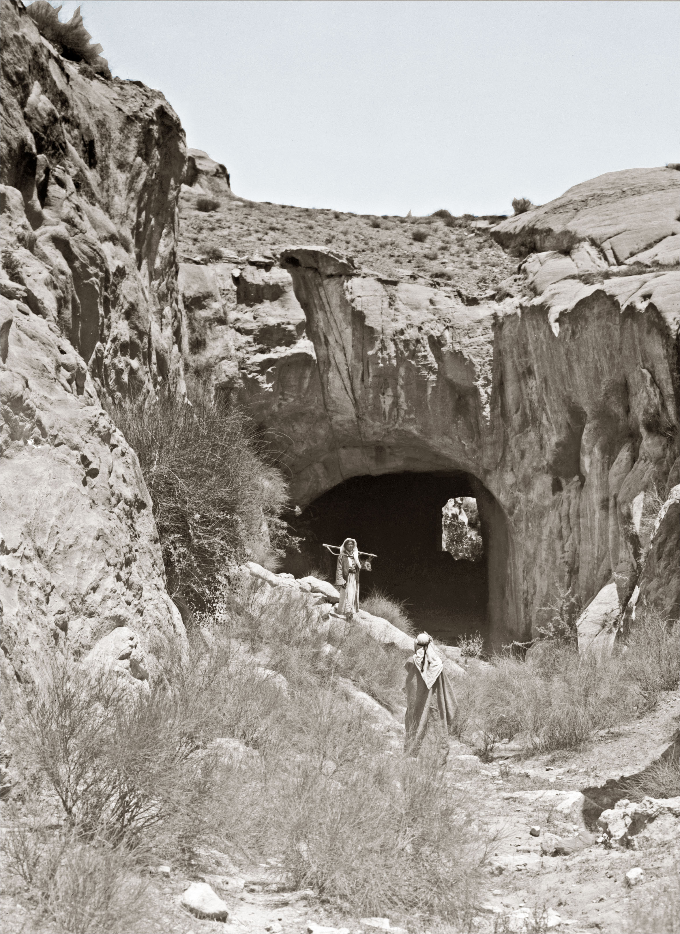 Petra. Ancient tunnel for deviation of the wadi Musa.